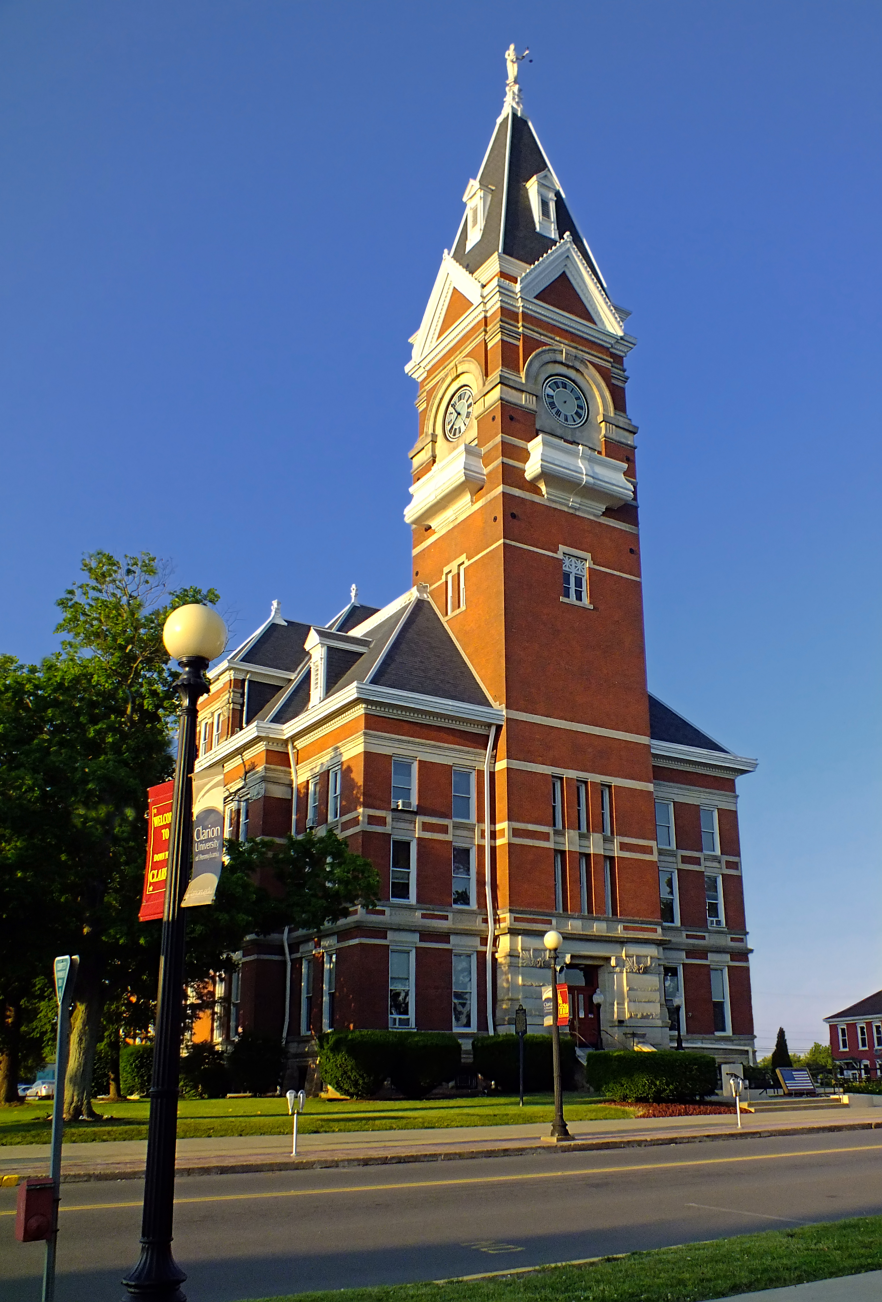 Front of the Clarion County Courthouse, located along Main Street in Clarion, Pennsylvania, United States. Built in 1883, it is listed on the National Register of Historic Places.